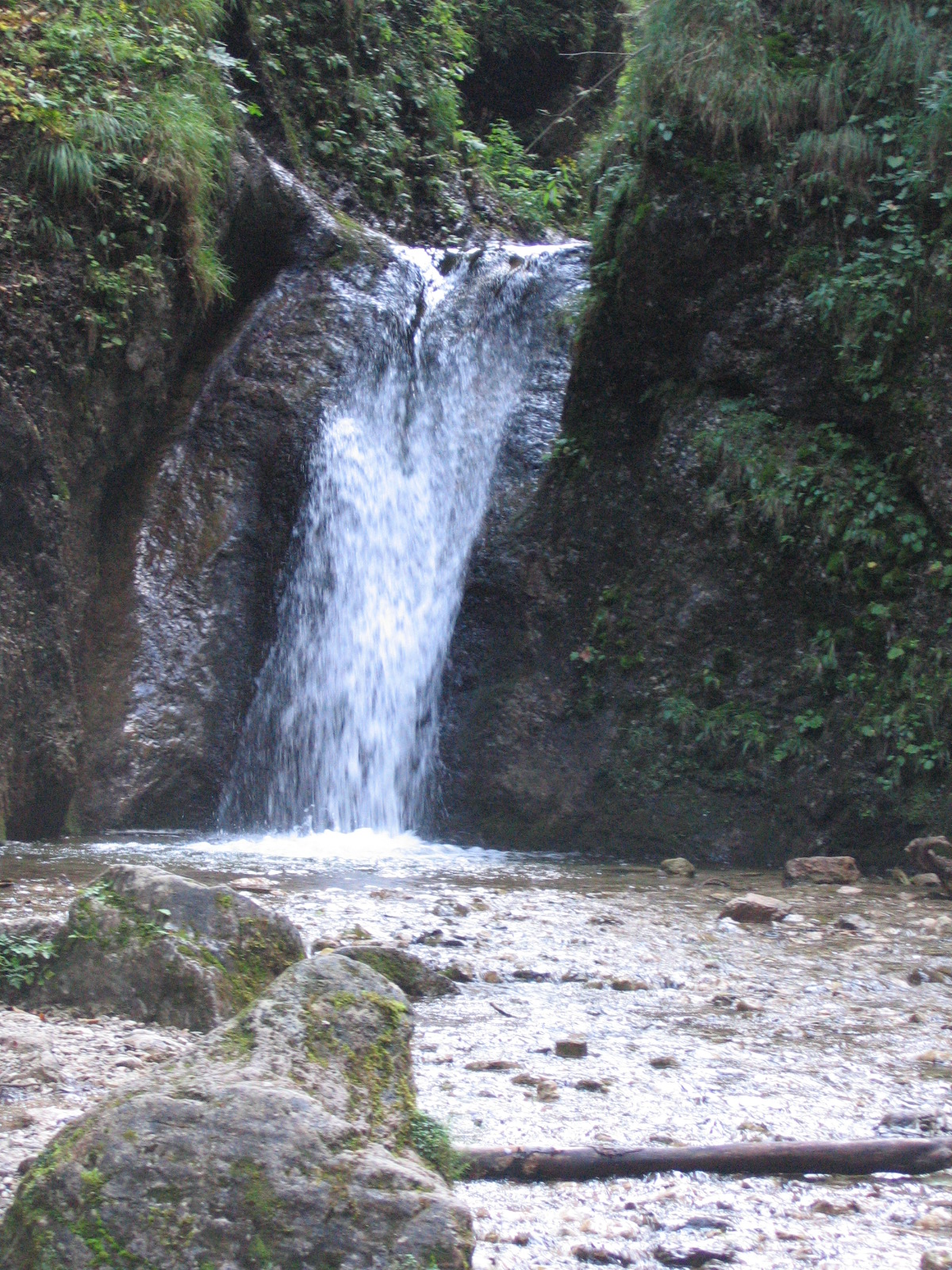 Malá Fatra, Tiesňavy - waterfall in Dolné diery, Slovakia